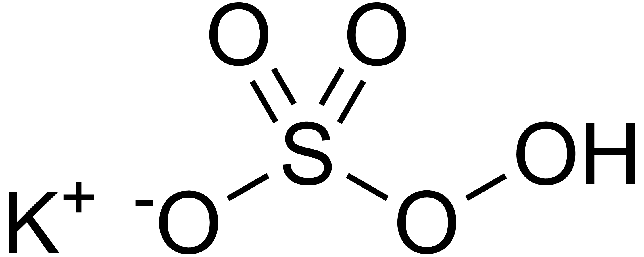 Chemical structure of Potassium peroxymonosulfate